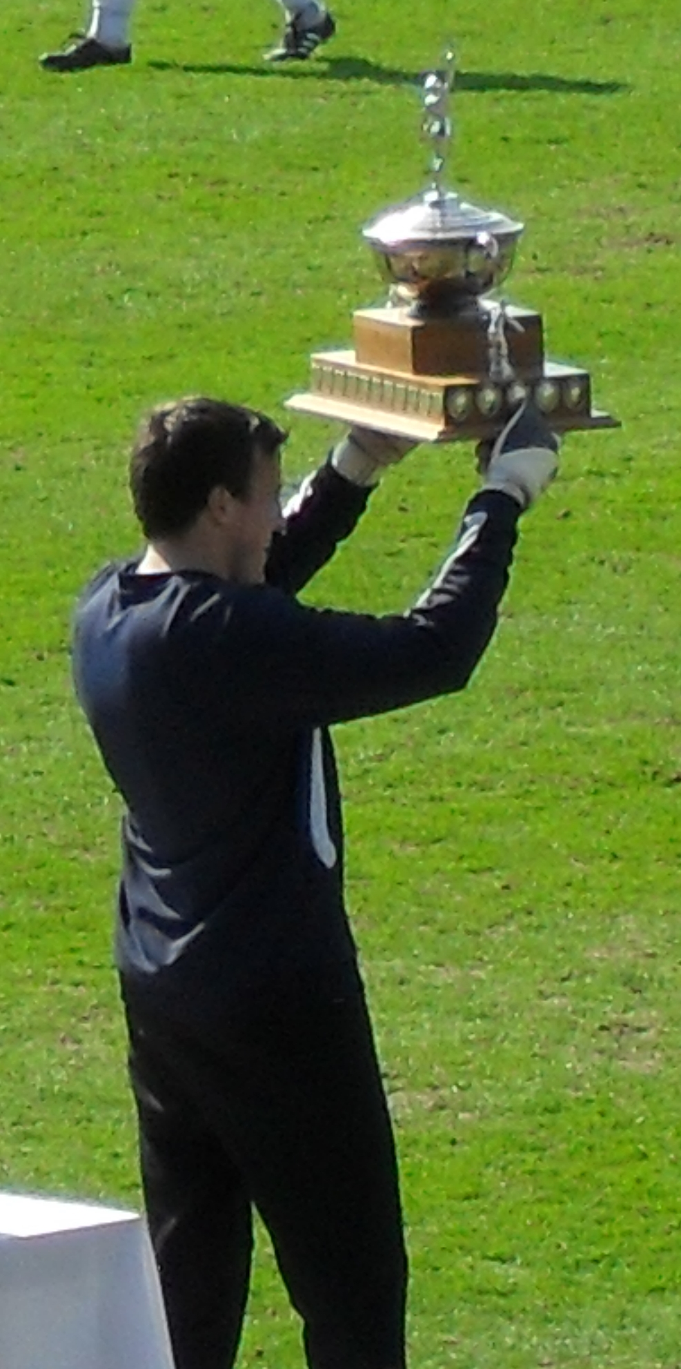 Michael Ingham before York City's match against Grays Athletic at Bootham Crescent, York on 17 April 2010